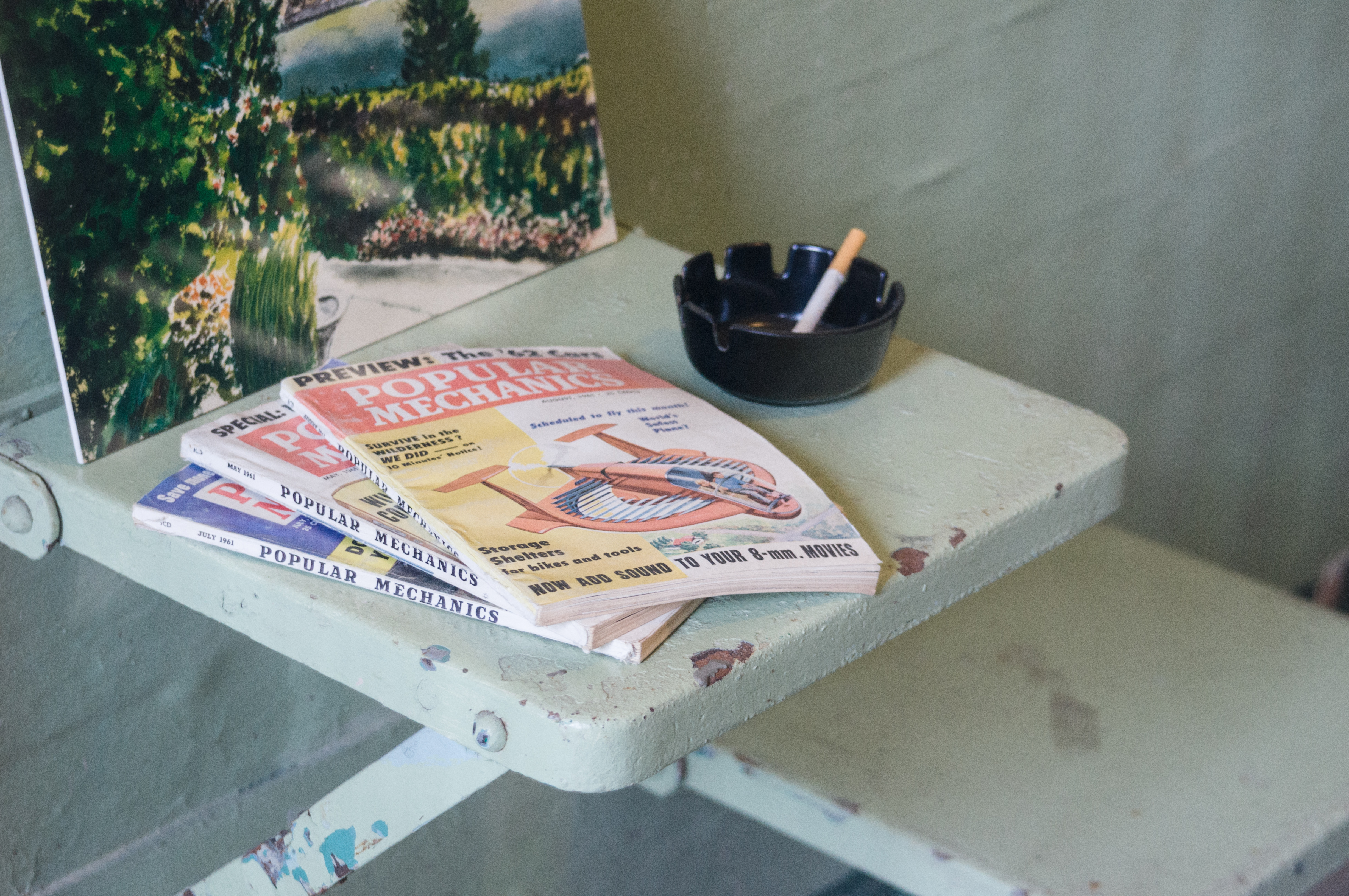 Popular Mechanics magazines at a prison ward of Alcatraz Federal Penitentiary, Alcatraz Island, California, USA.